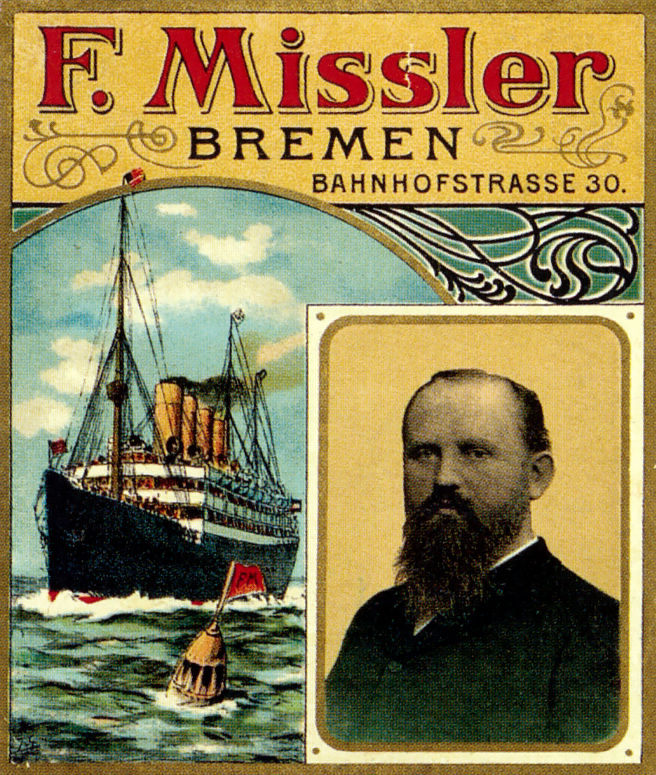 Werbezettel der Agentur F(riedrich) Missler samt Portrait des Eigners